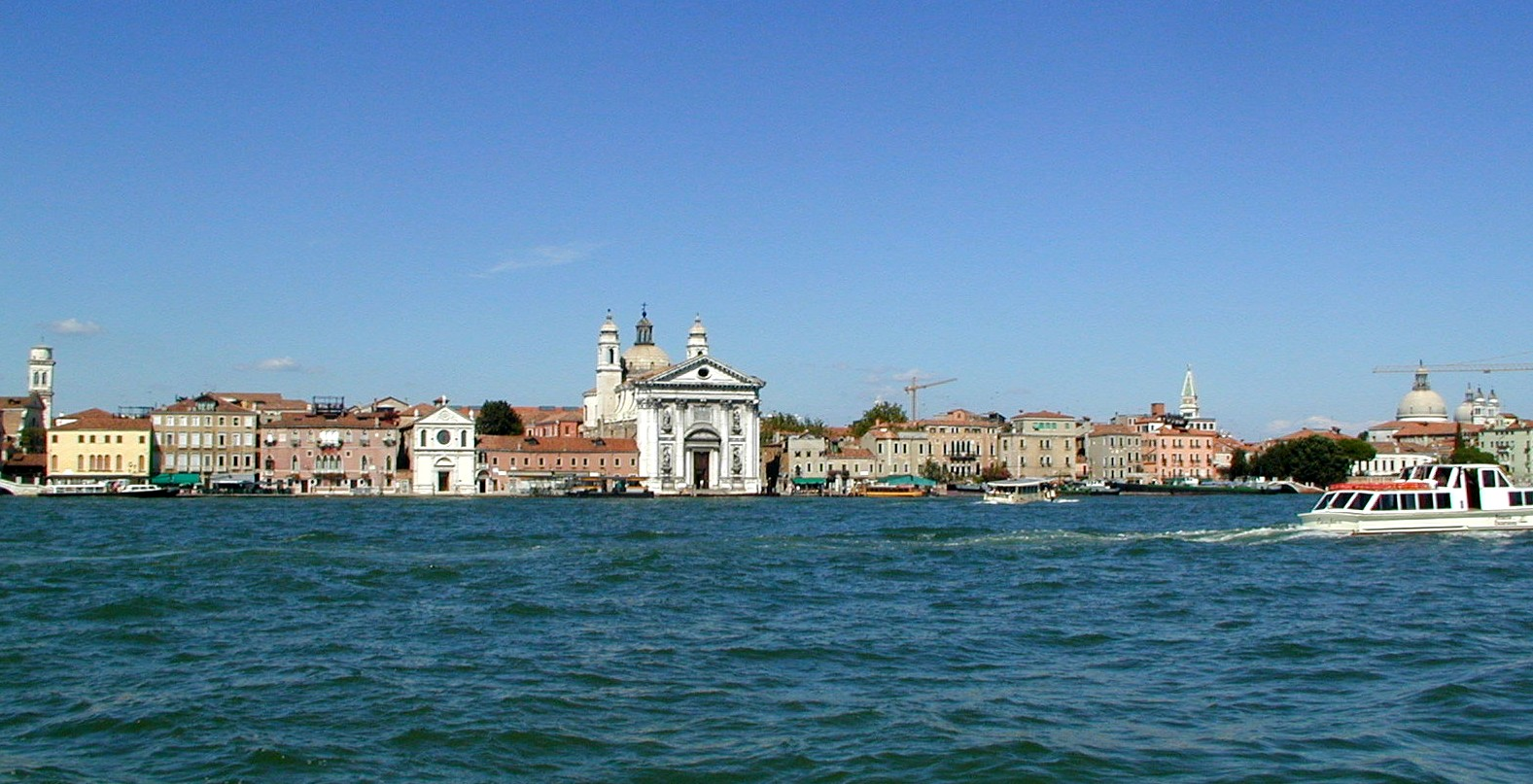 Giudecca Canal. Photo taken by me in Venice, August 22, 2001.